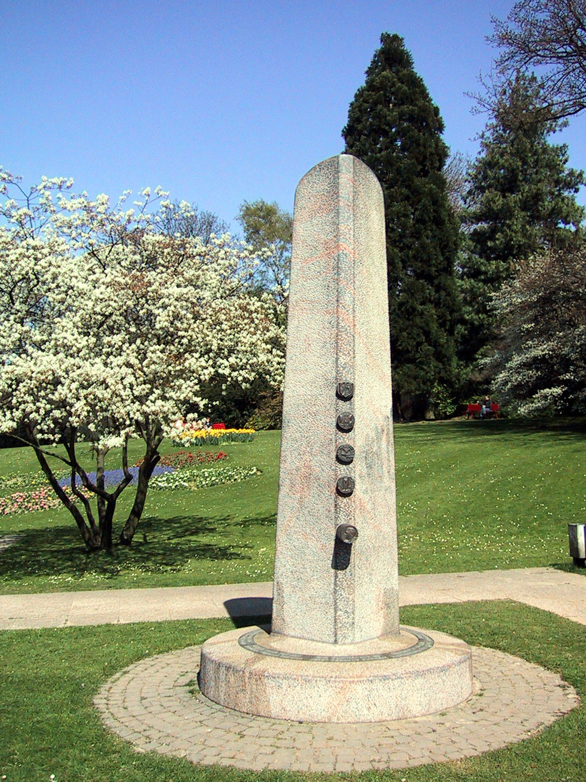 Memorial for Josef Hermann Dufhues in the city park of Bochum